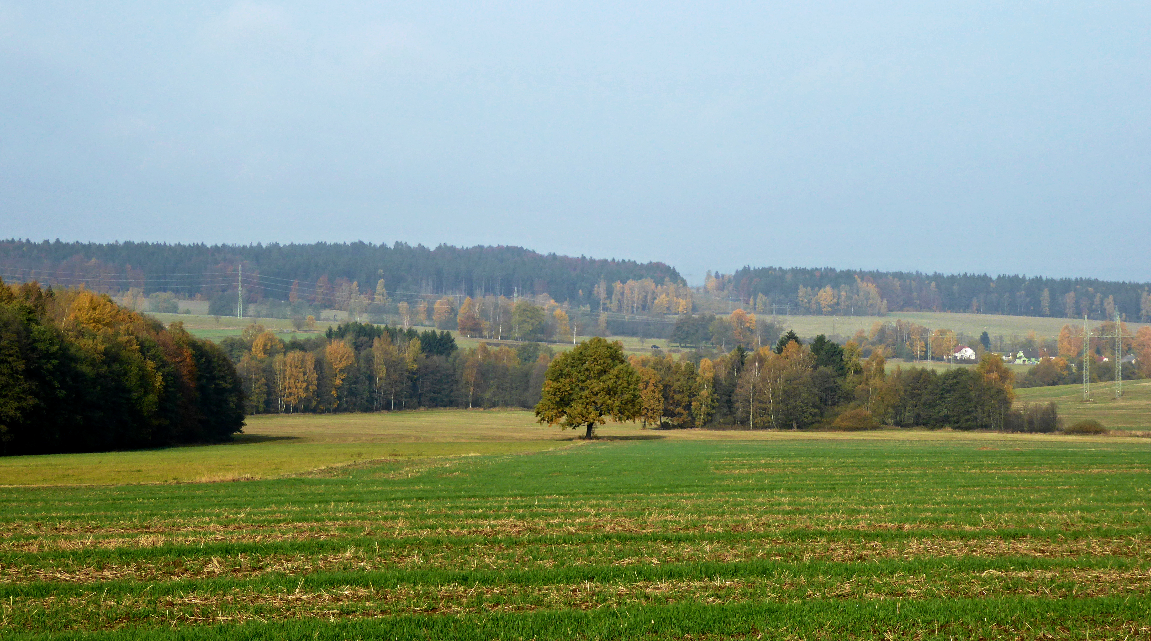 "Stružinecká" knoll hill, landscape over of hamlets "Benátky" (Vysočina Region) and "Chlum" (Pardubice Region). On the photo in the midst: forested hill "Barchanec" (624 m above sea level, seen from the southeast is not significant). Top easily accessible from the village of Venice (in czech: Benátky). The natural habitat lies in the Žďárské vrchy Protected Landscape Area. The houses on the left belongs to the village of Chlum (part of town Hlinsko). Photo location: Czechia, border between regions Vysočina Region and Pardubice Region, also border between of small town Krucemburk and hamlet "Chlum u Hlinska" (part of town Hlinsko).